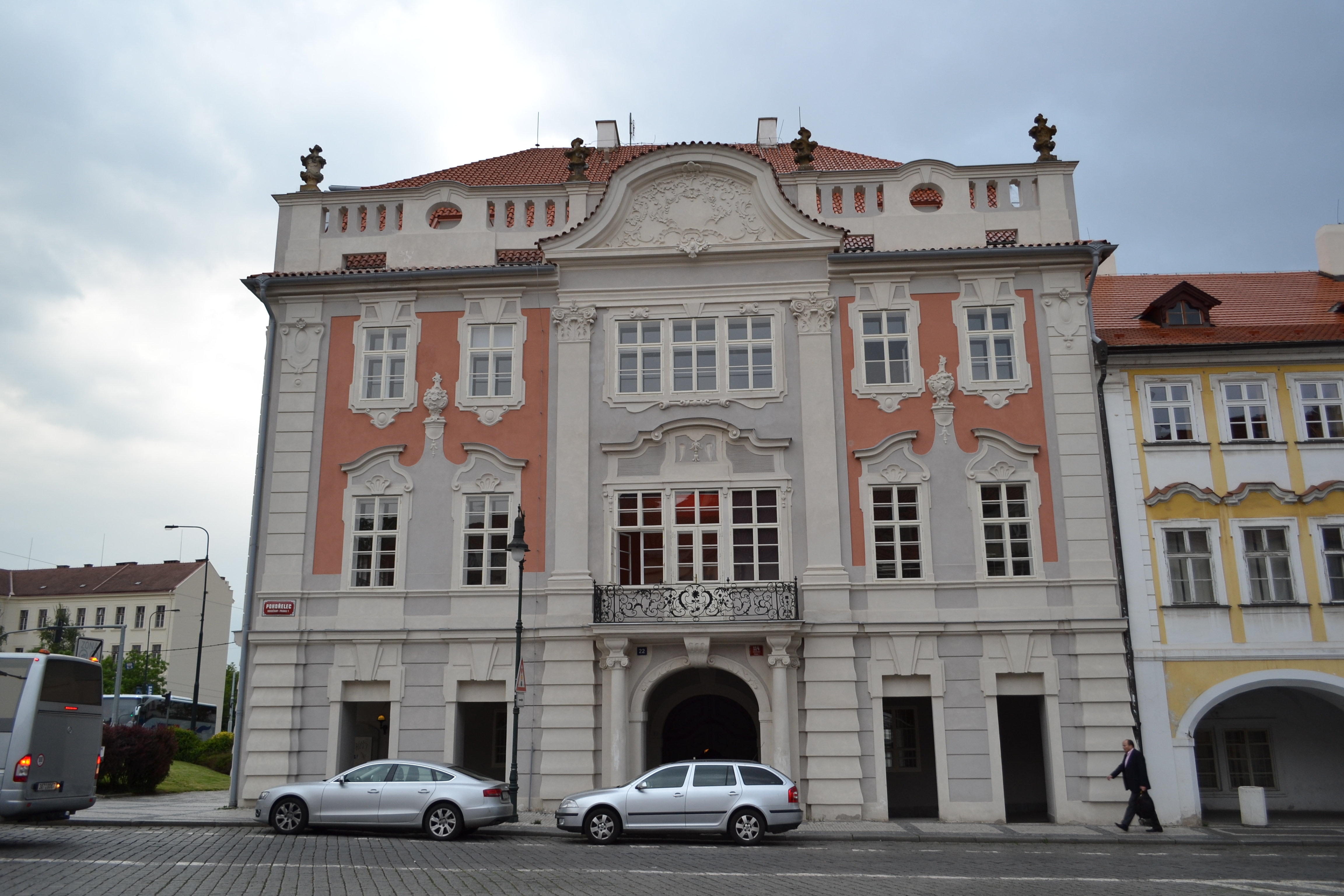 Kučerův palác in Prague - Hradčany